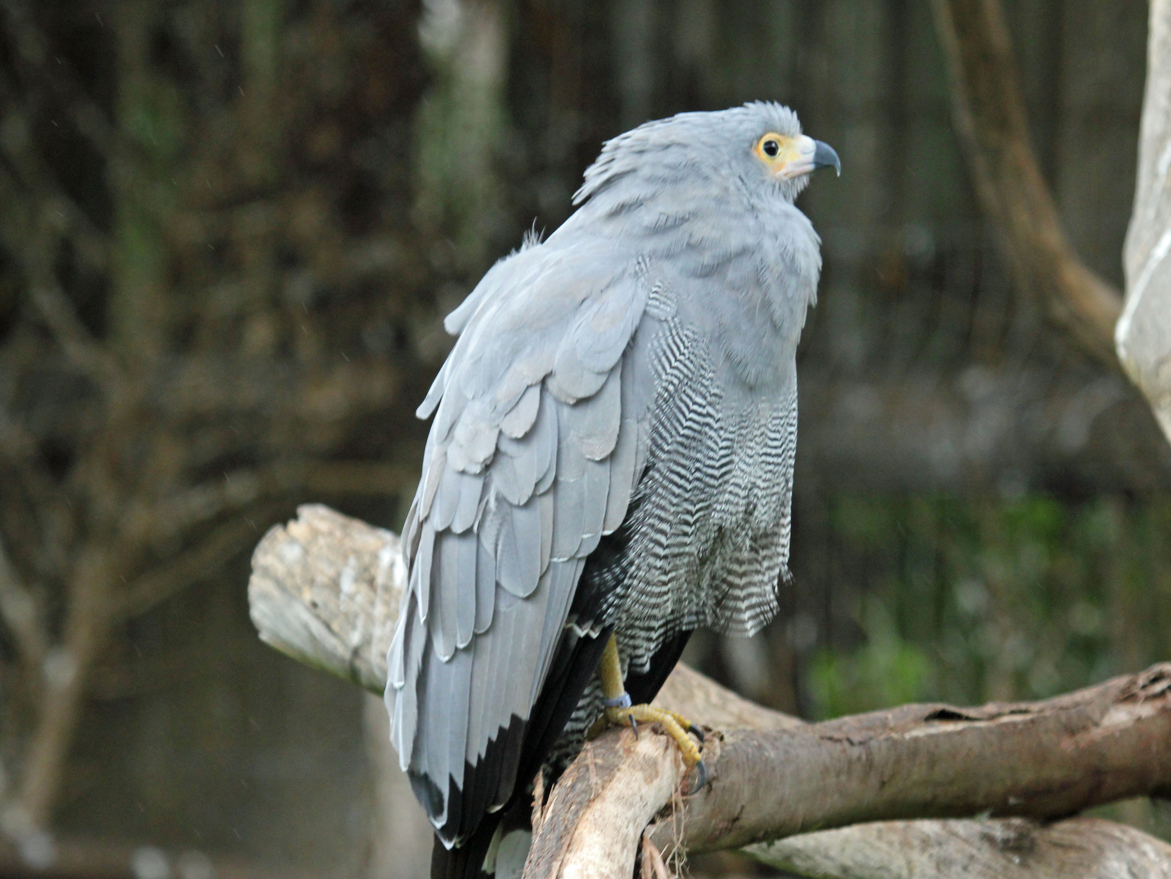 African Harrier-Hawk, Harrier Hawk, or Gymnogene (Polyboroides typus) - World of Birds, near Cape Town, South Africa